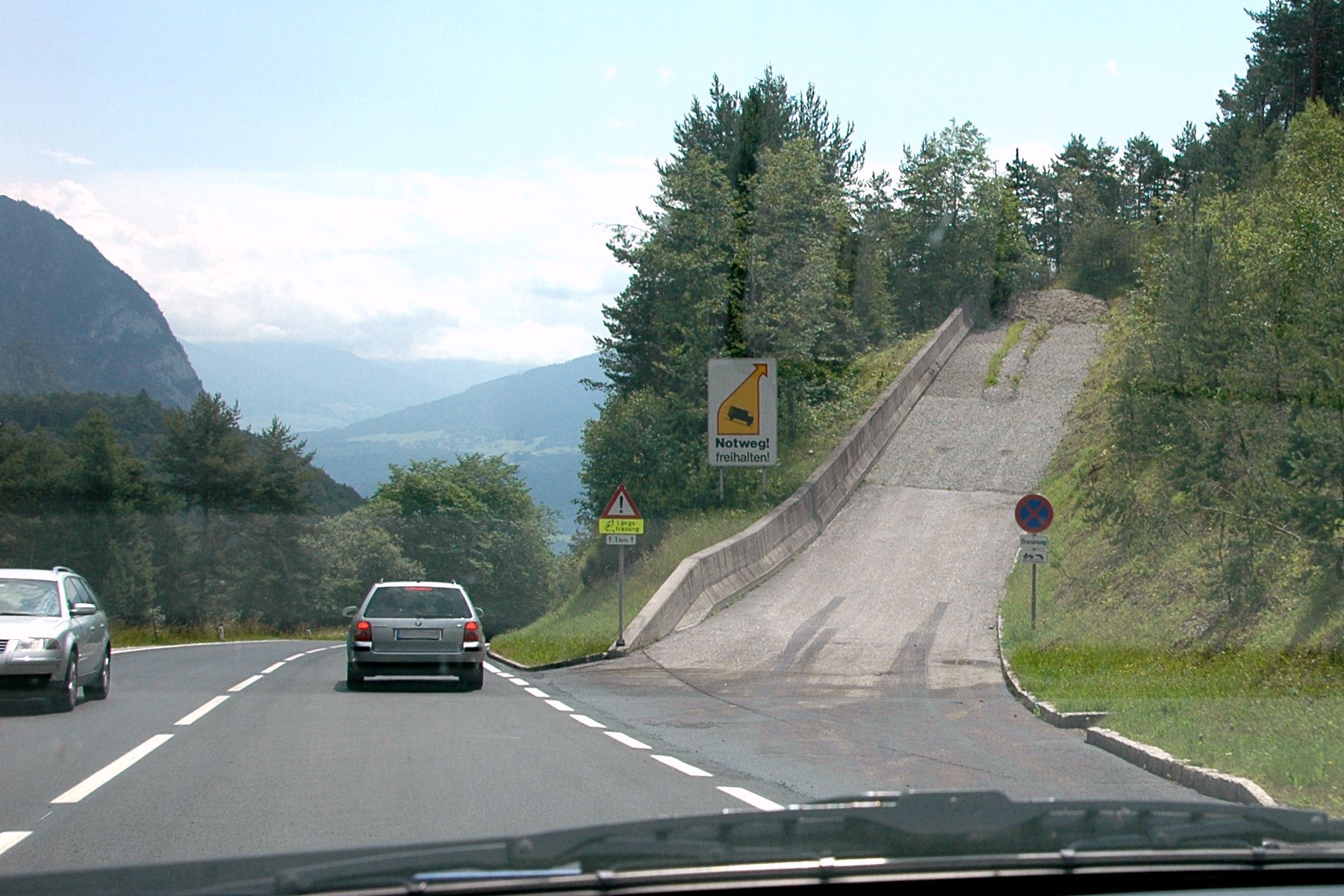 One of the runaway truck lanes of the Zirlerbergstraße